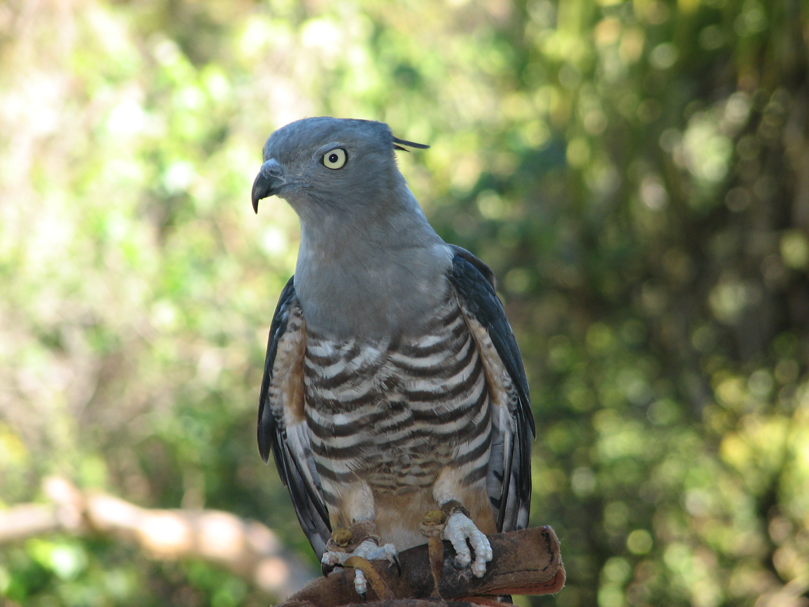 A Pacific Baza in captivity.